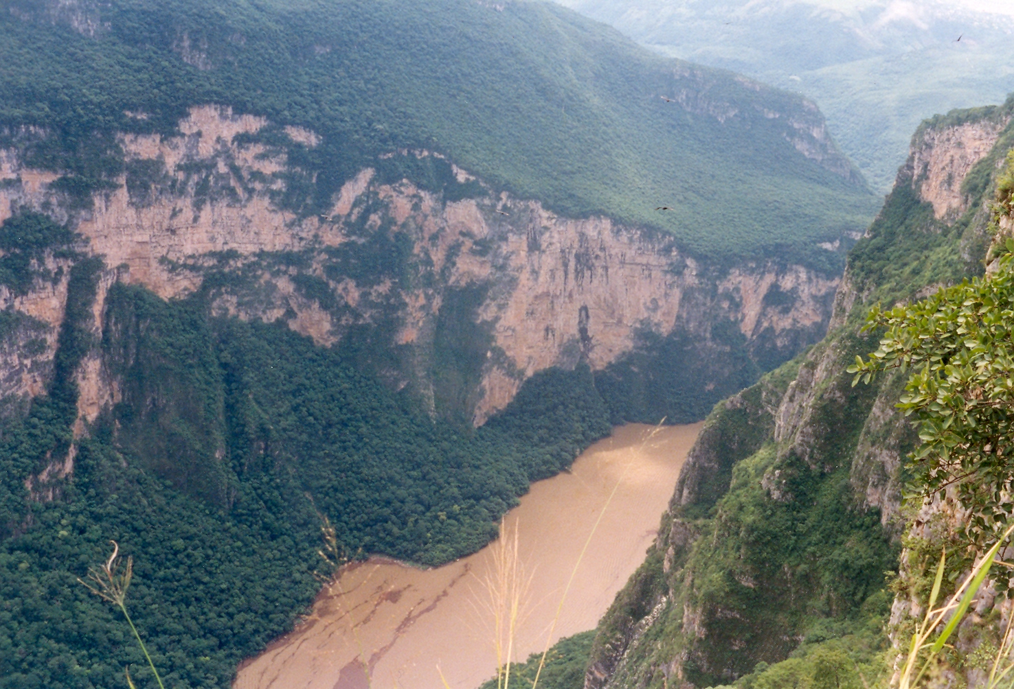 Cañón el Sumidero in the National Park of the same name on the river Grijalva, Chiapas, Mexico. Picture taken in fall 1998.